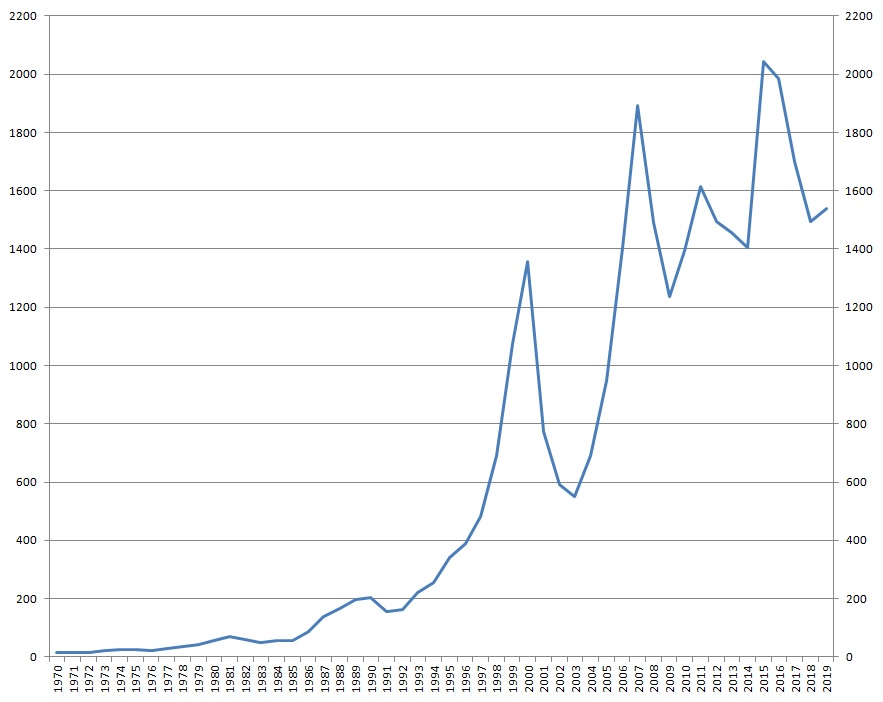 Total world inward FDI flows from 1970 to 2016 (US dollars at current prices in billions)